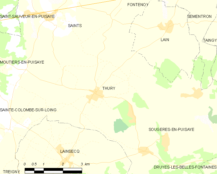 Map of French municipality Thury